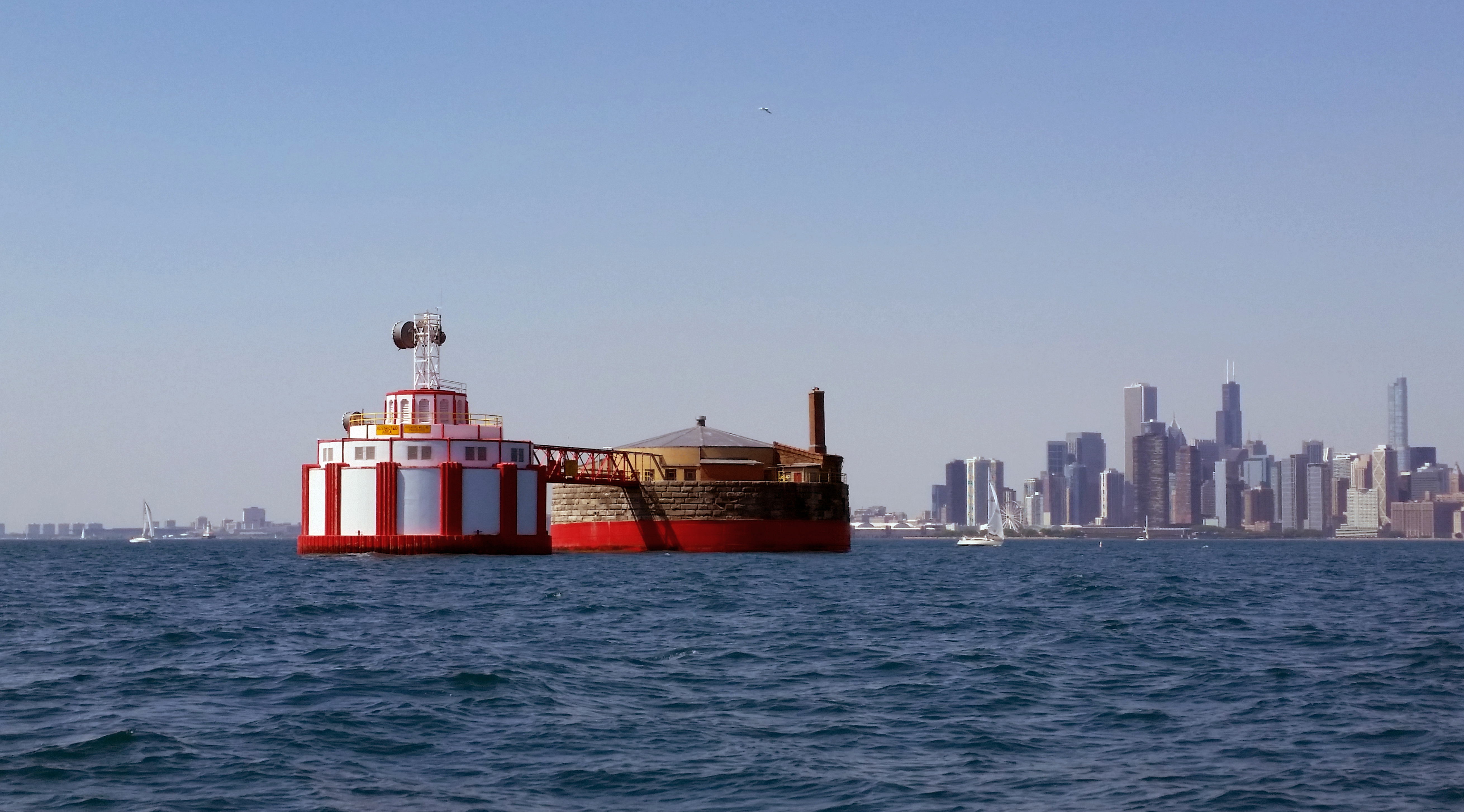 View southwest of William Dever water intake crib (left) and Carter Harrison water intake crib (right) connected by a footbridge in Lake Michigan off North Avenue Beach in Chicago, Illinois. Downtown Chicago (aka the Loop) is visible in the background.